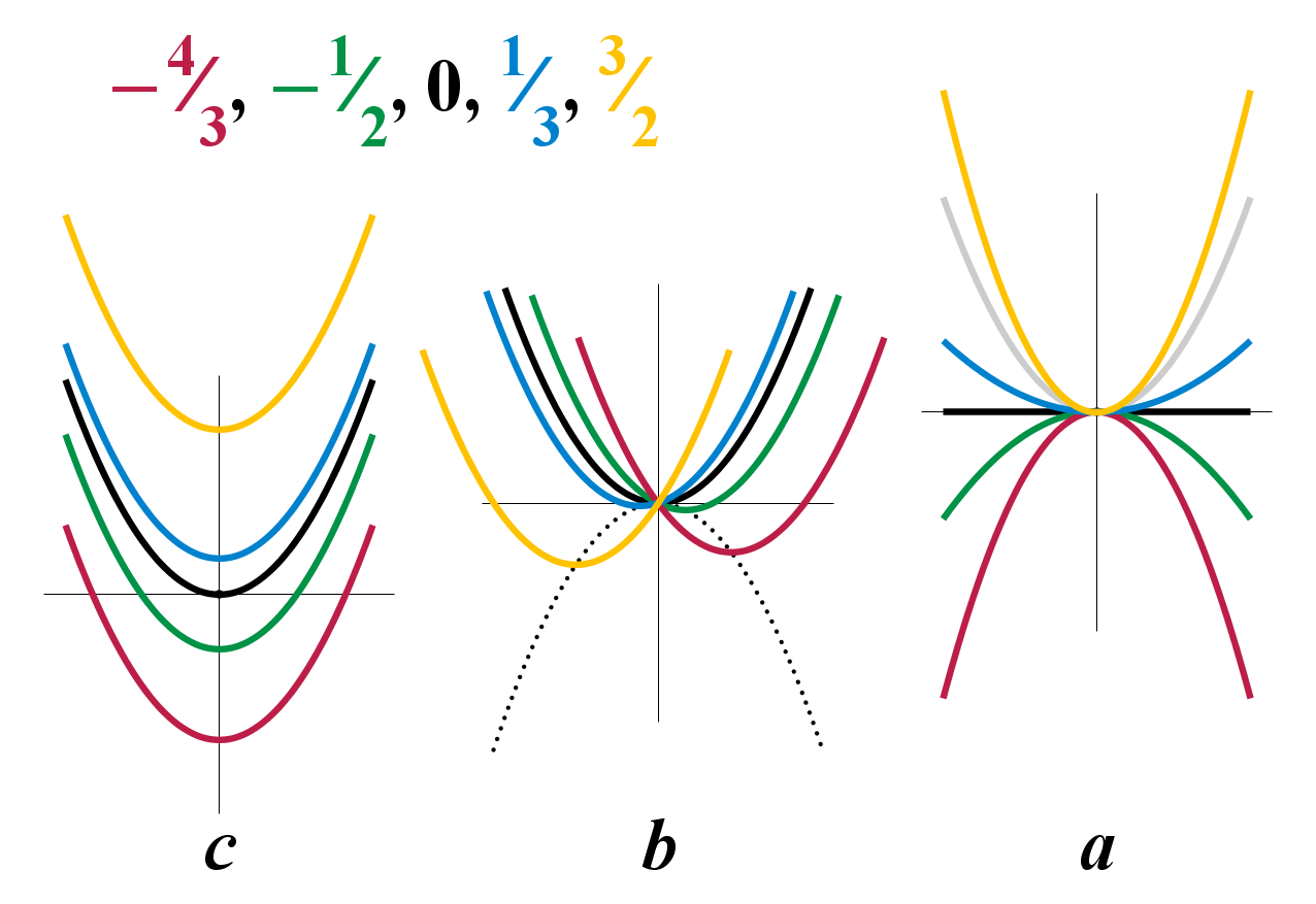 Plots of quadratic equation, varying each coefficient